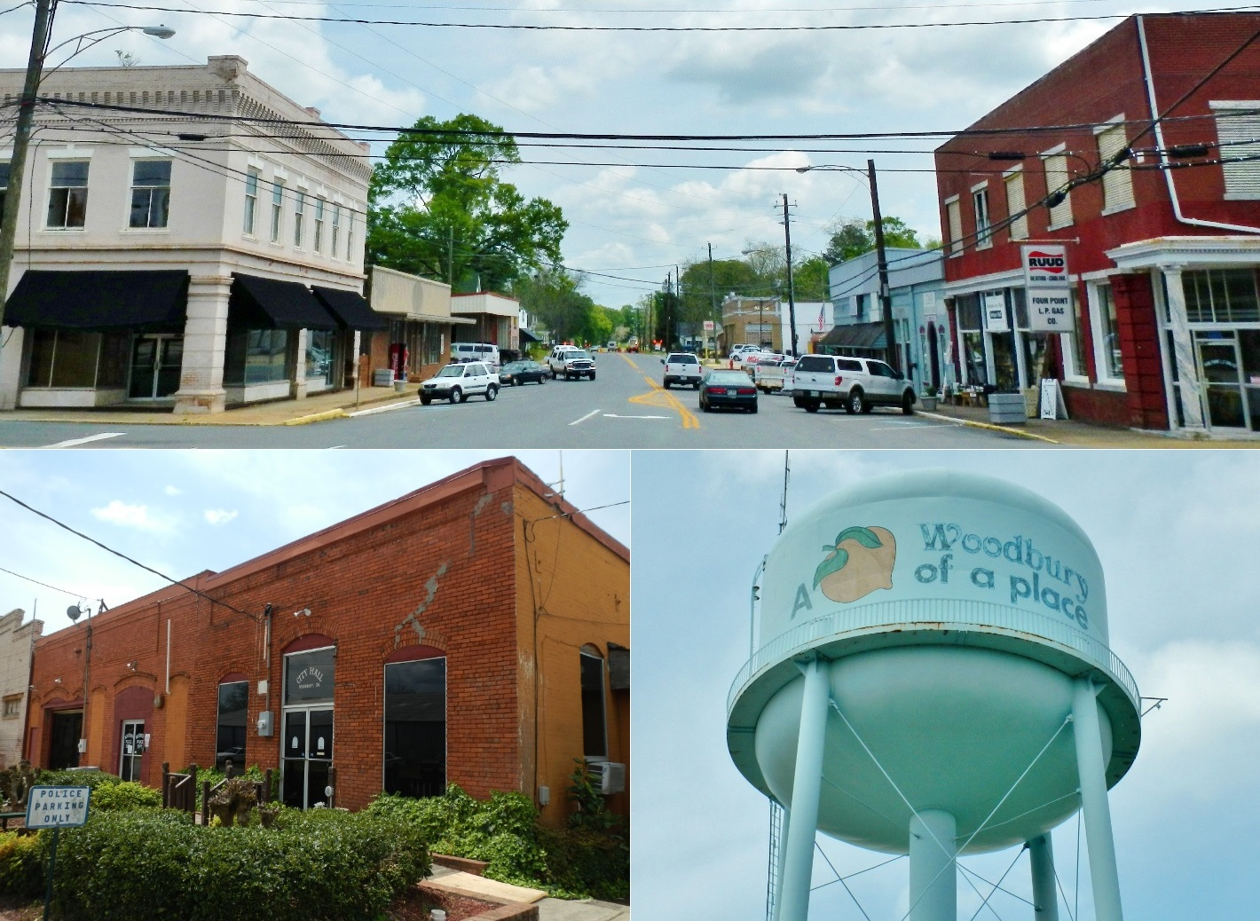 This is a series of photos that I shot of Woodbury, Georgia and personally assembled into this photo collage.